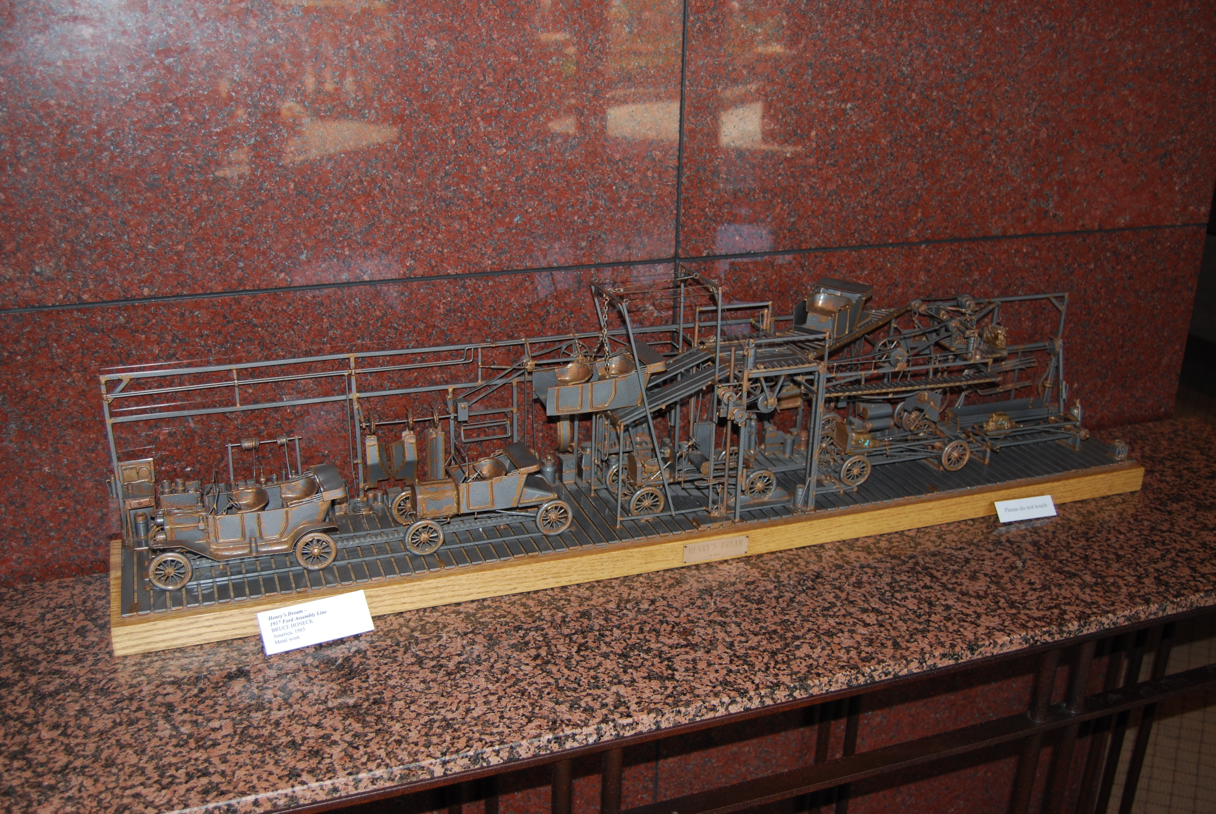 This work of art depicts the key moment in the Model T assembly line when the completed passenger compartment came down to be mated to the chassis and engine, alreay on their wheels. DSC_0698